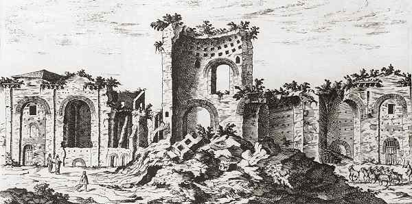 Remains of the Baths of Constatine in Rome